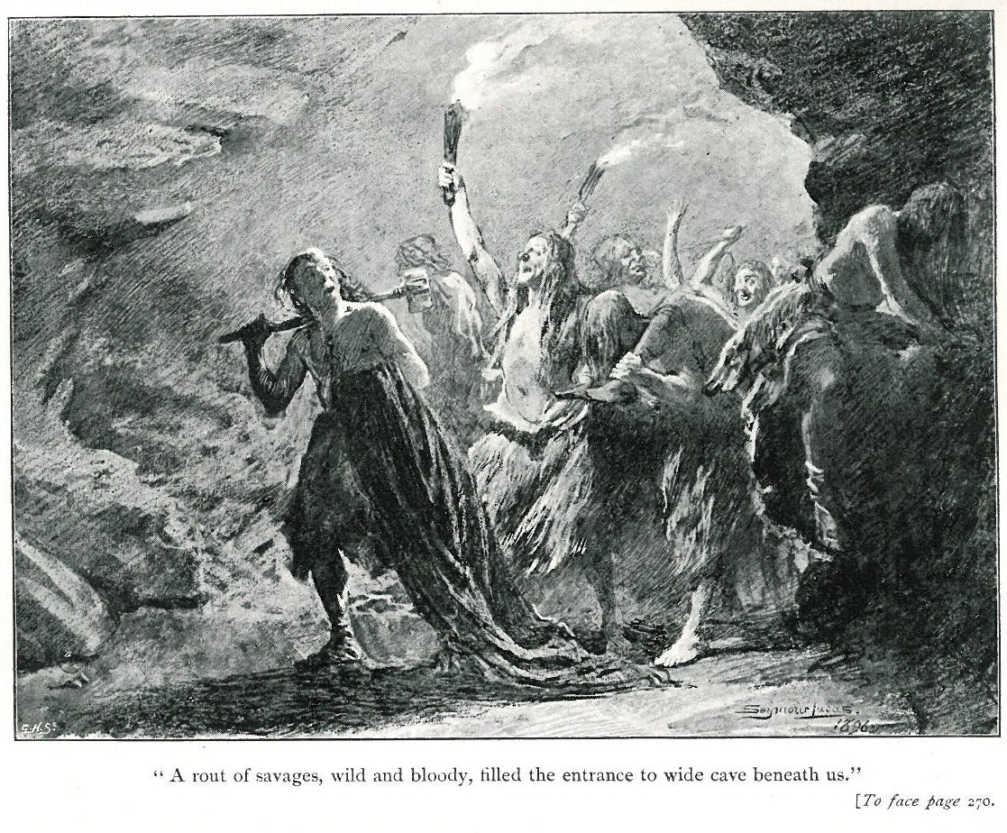 "A rout of savages, wild and bloody, filled the entrance to wide cave beneath us." Illustration by John Seymour Lucas for Samuel Rutherford Crockett's novel, The Grey Man (1896).